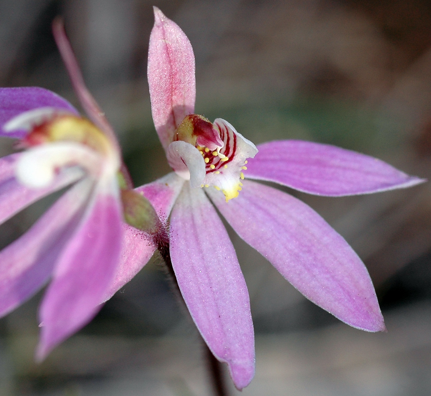 Pink Fingers orchid, Caladenia carnea. Southern Mid-lands of Tasmania.